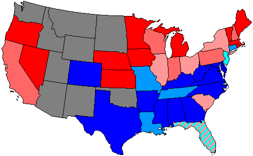 Summary of party control of U.S. house seats in the 45th United States Congress following election. Stripes indicate a tie between two or more parties. Legend: 80.1-100% Democratic seat majority 60.1-80% Democratic seat majority 60% or less Democratic seat plurality 60% or less Republican seat plurality 60.1-80% Republican seat majority 80.1-100% Republican seat majority